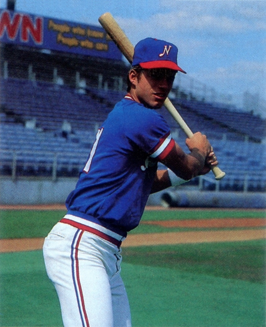 Shortstop Keith Smith of the 1983 Nashville Sounds Minor League Baseball team of the Southern League